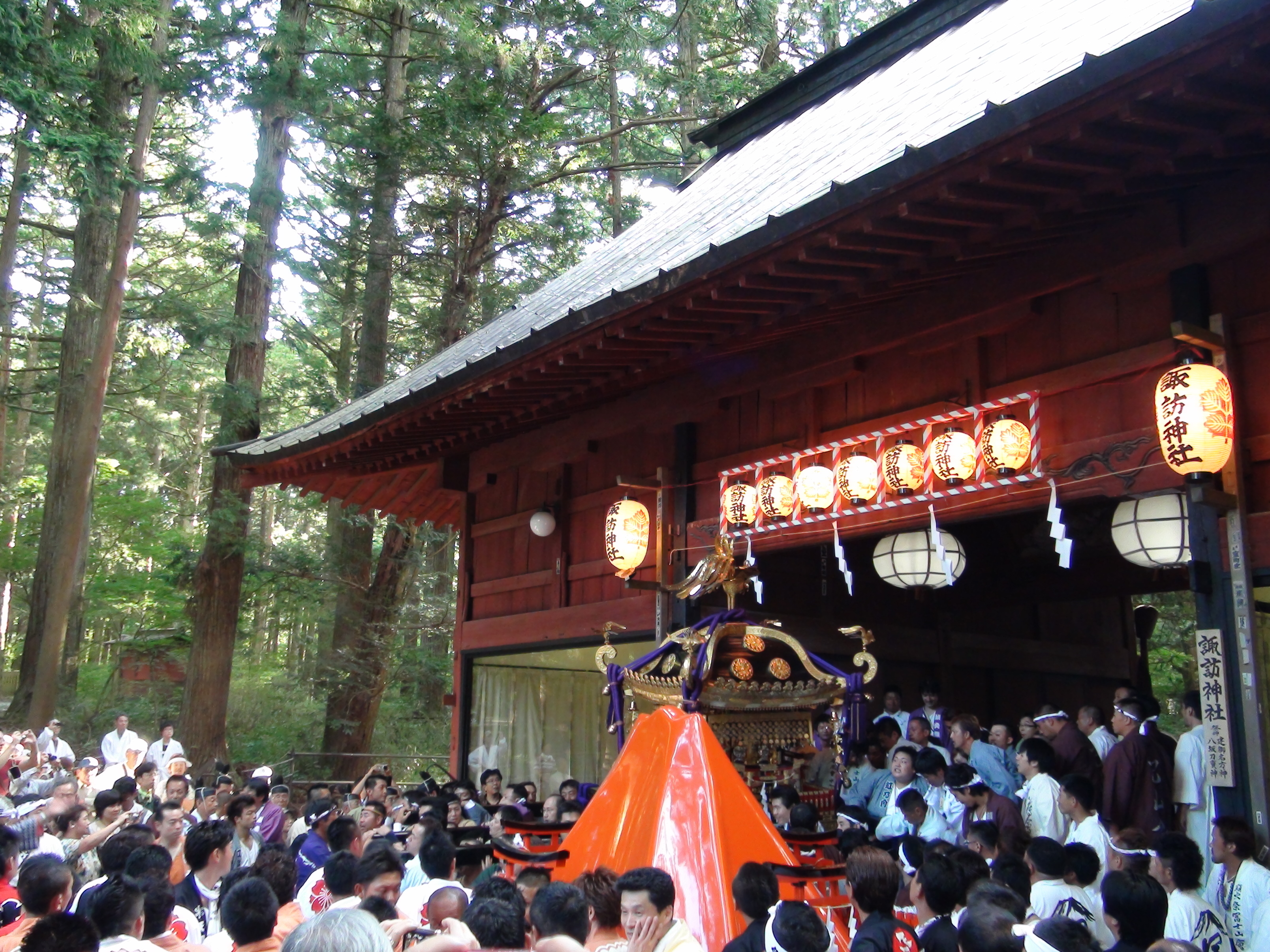 Departure ceremony of Mikoshi. Yoshida Fire Festival